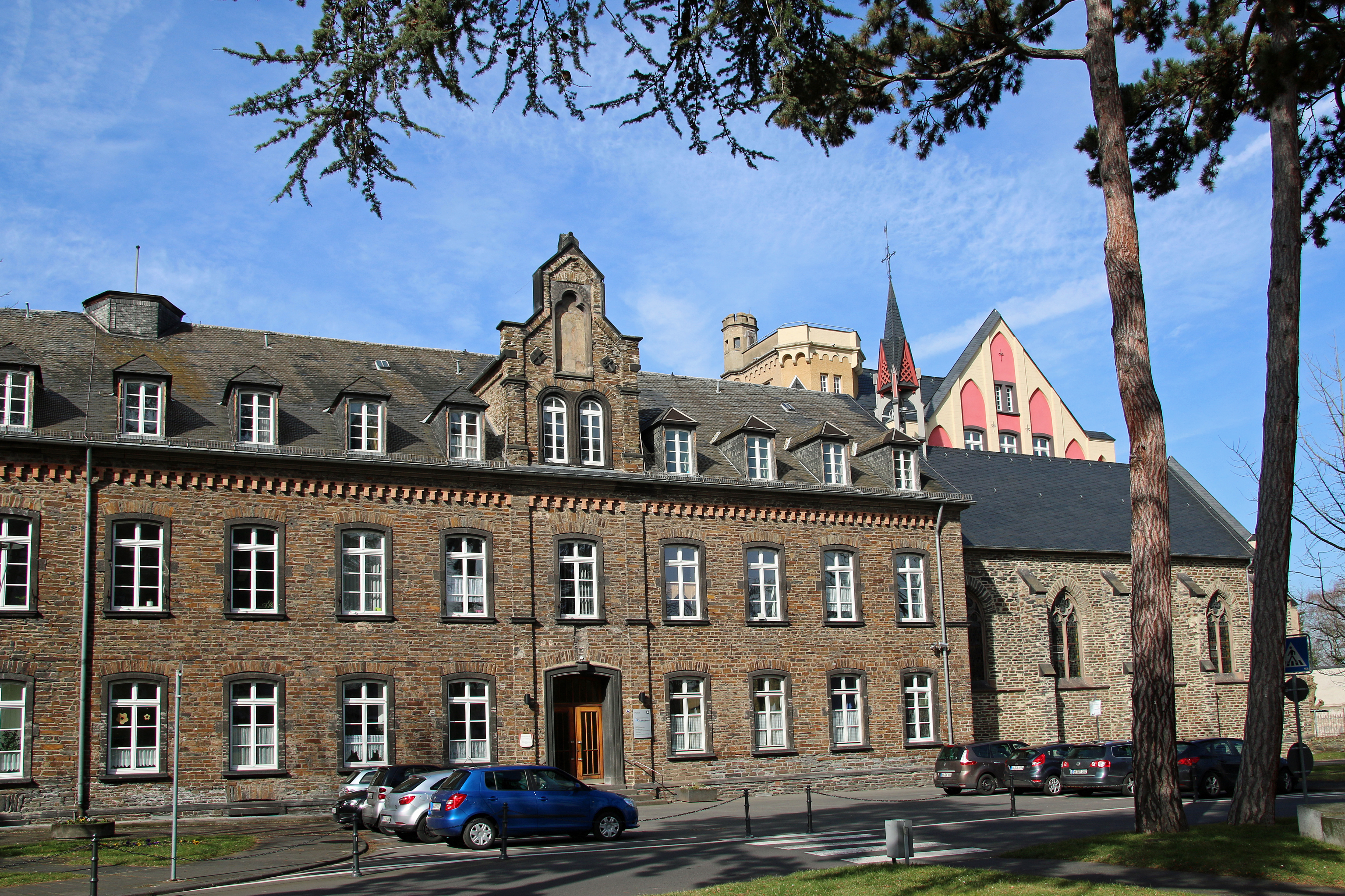 Old building of the hospital Kemperhof in Koblenz